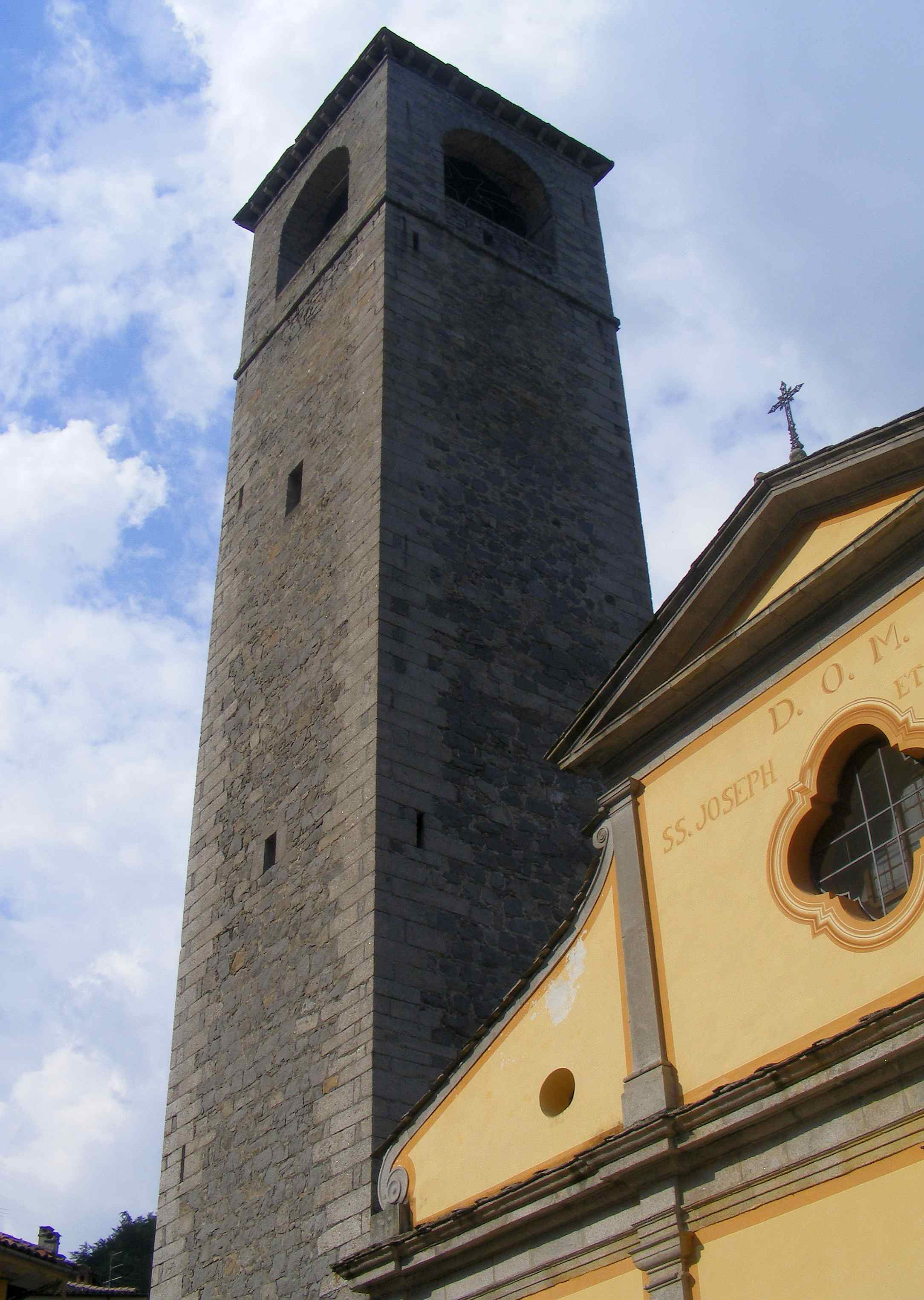 Campiglia Cervo (BI, Italy) bell tower (XVII century)